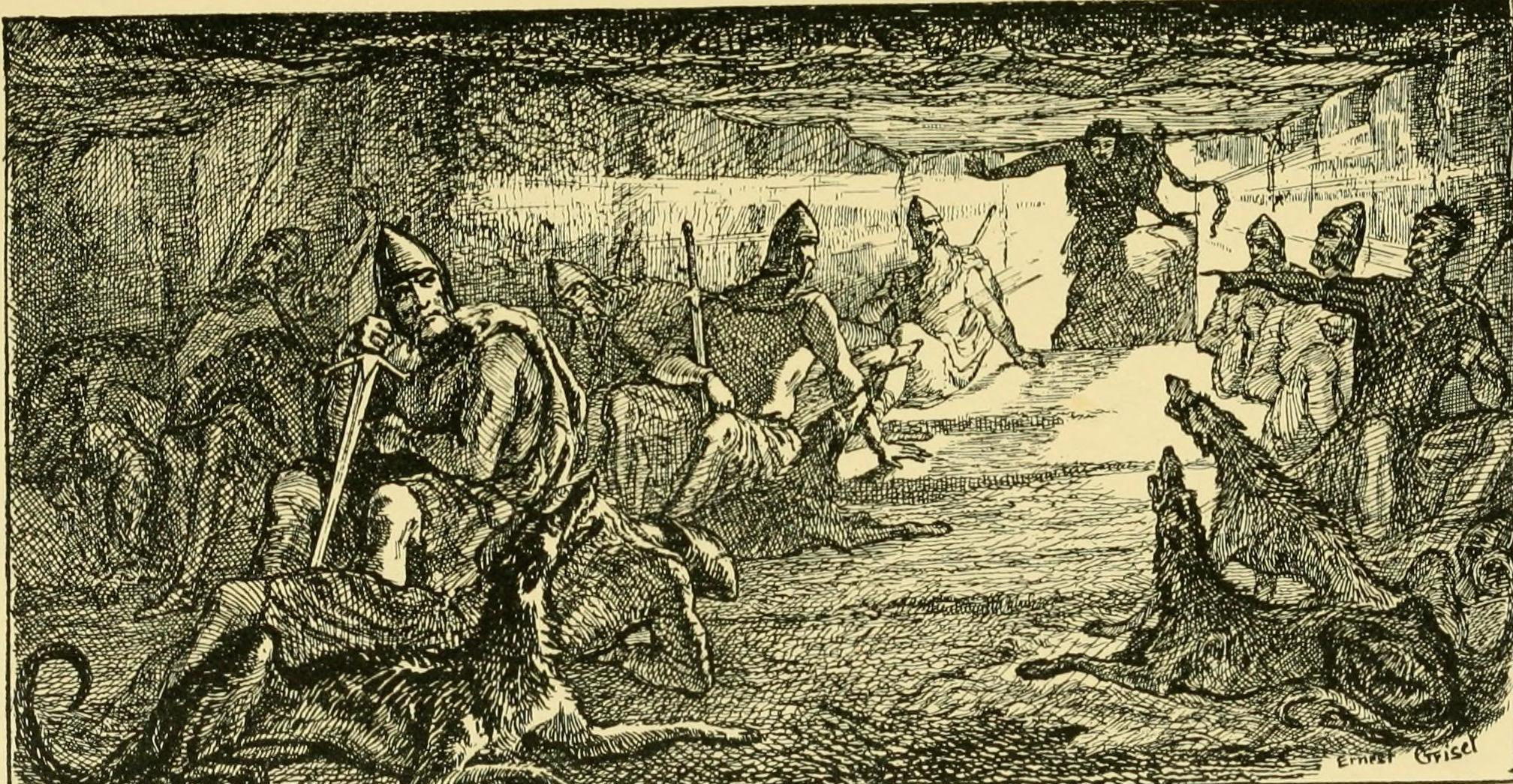 Illustration by Ernest Griset in 1891 book 'The Fions' by John Gregorson Campbell